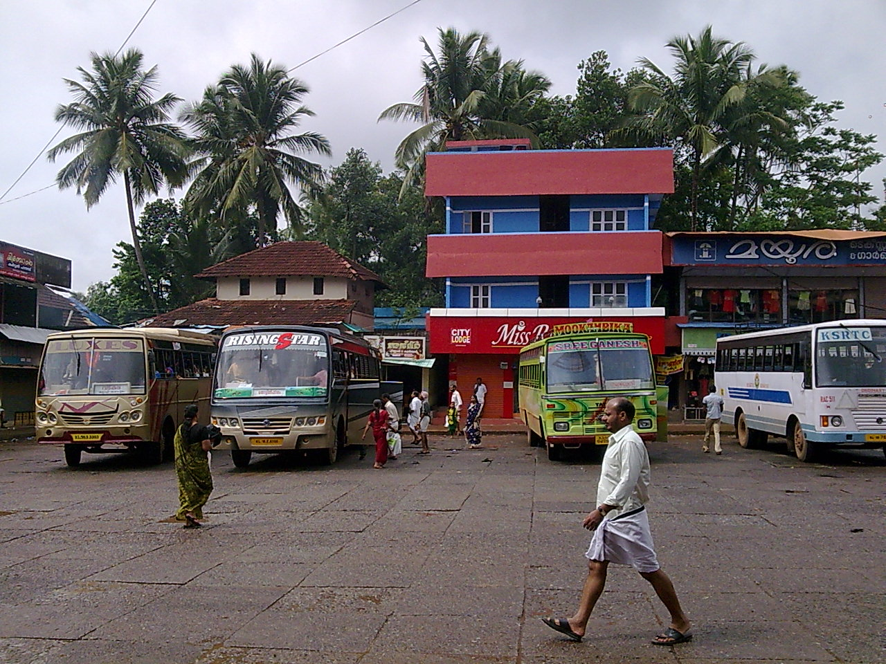 Nadapuram Bus stand